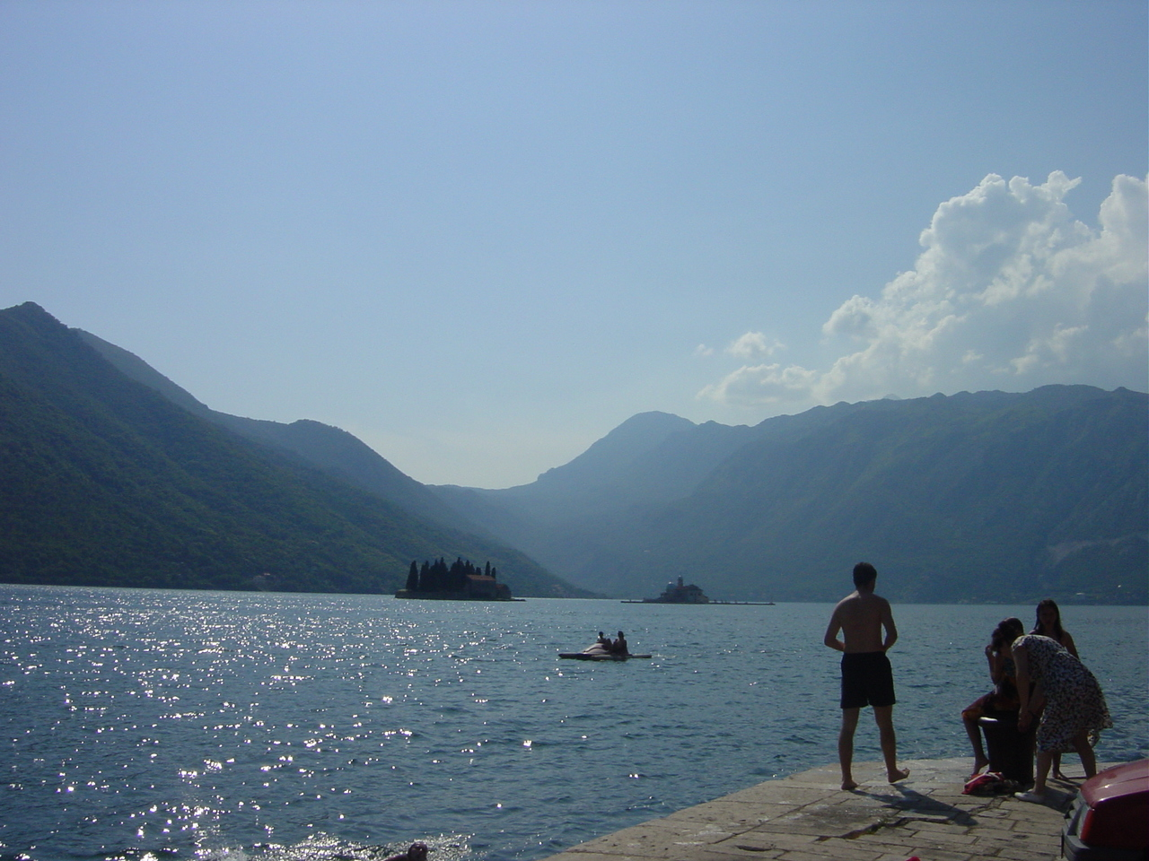 Islands beyond the old town of Perast.